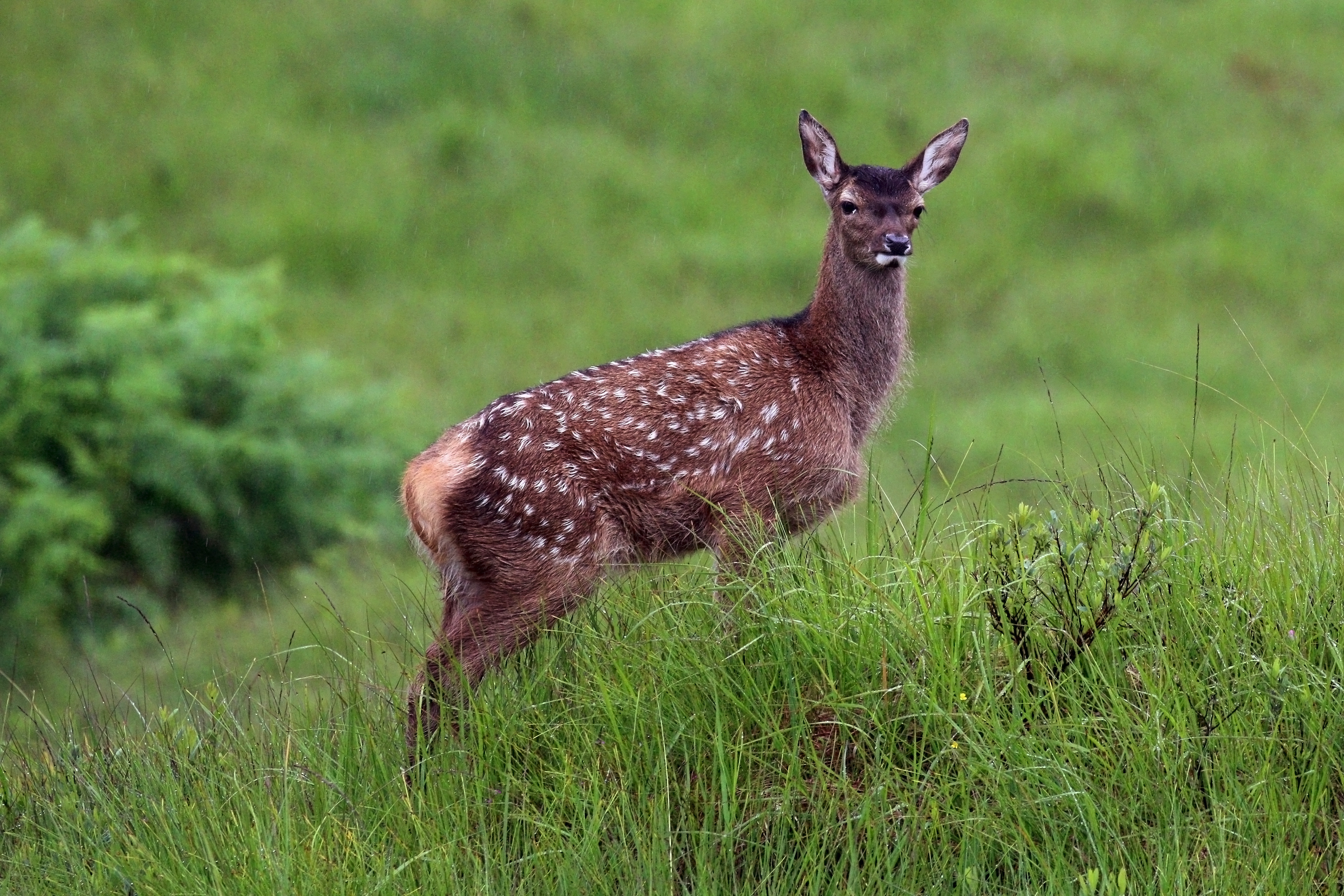 Red deer (Cervus elaphus) juvenile, Glen Garry, Highland